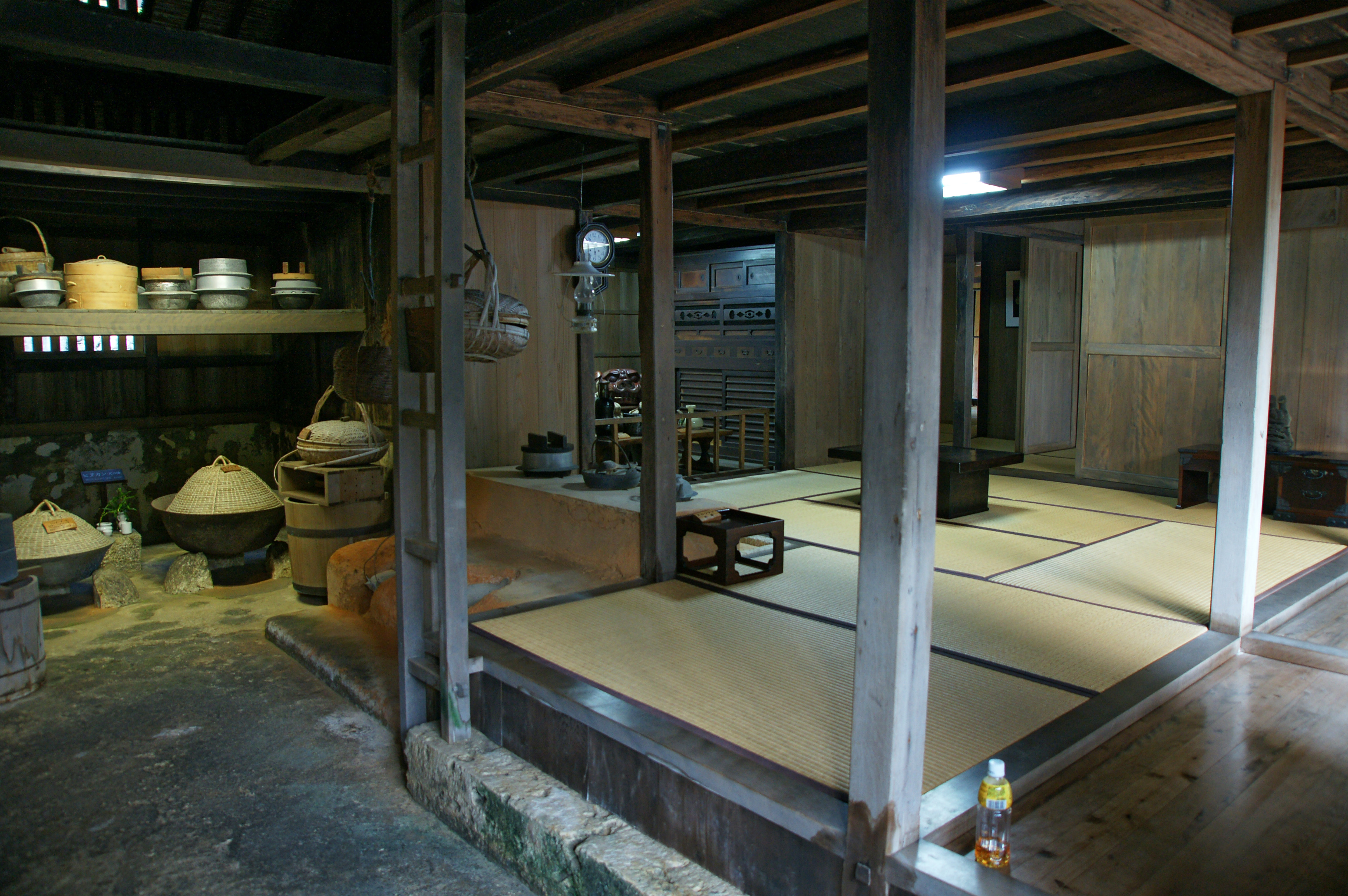 Nakamura House in Kitanakagusuku, Okinawa prefecture, Japan.